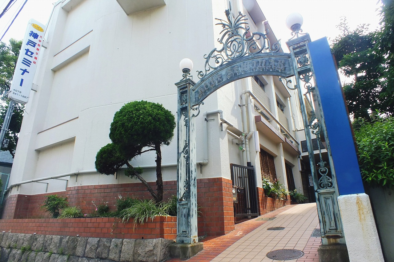 KOBE SEMINAR 学校法人 村上学園 予備校神戸セミナー